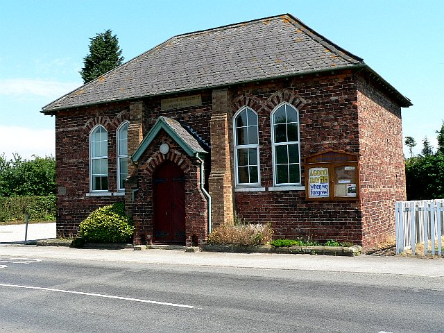 The Methodist Church, York Road, Skipwith.